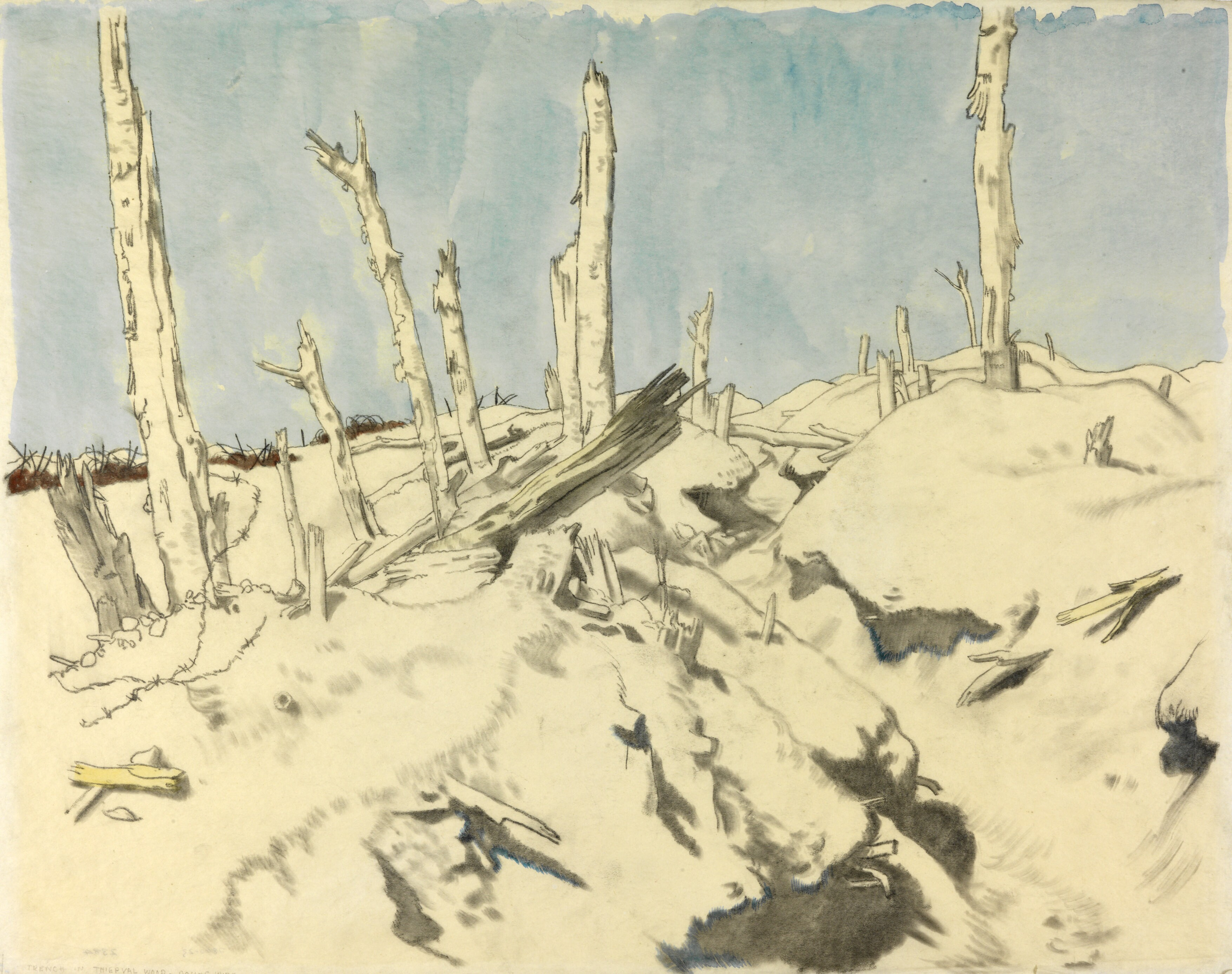 A Trench, Thiepval- German wire image: a view along a bomb damaged trench, which runs from the bottom right of the composition into the distance. Barbed wire runs along the top, amongst the trunks of shattered trees.